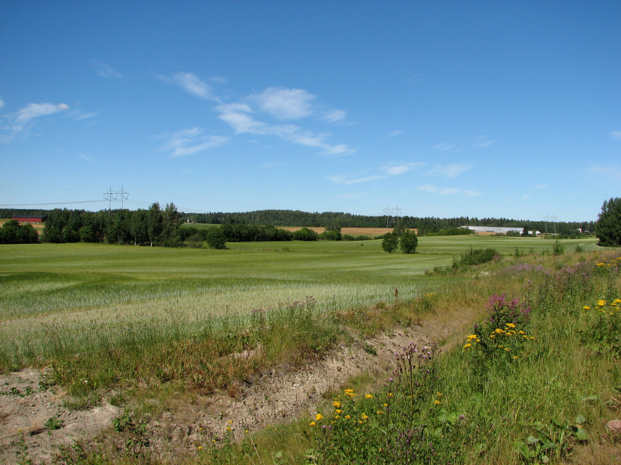 Field in Viinikkala, Vantaa.